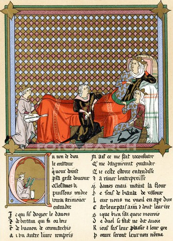 Adenet Le Roi in a miniature.